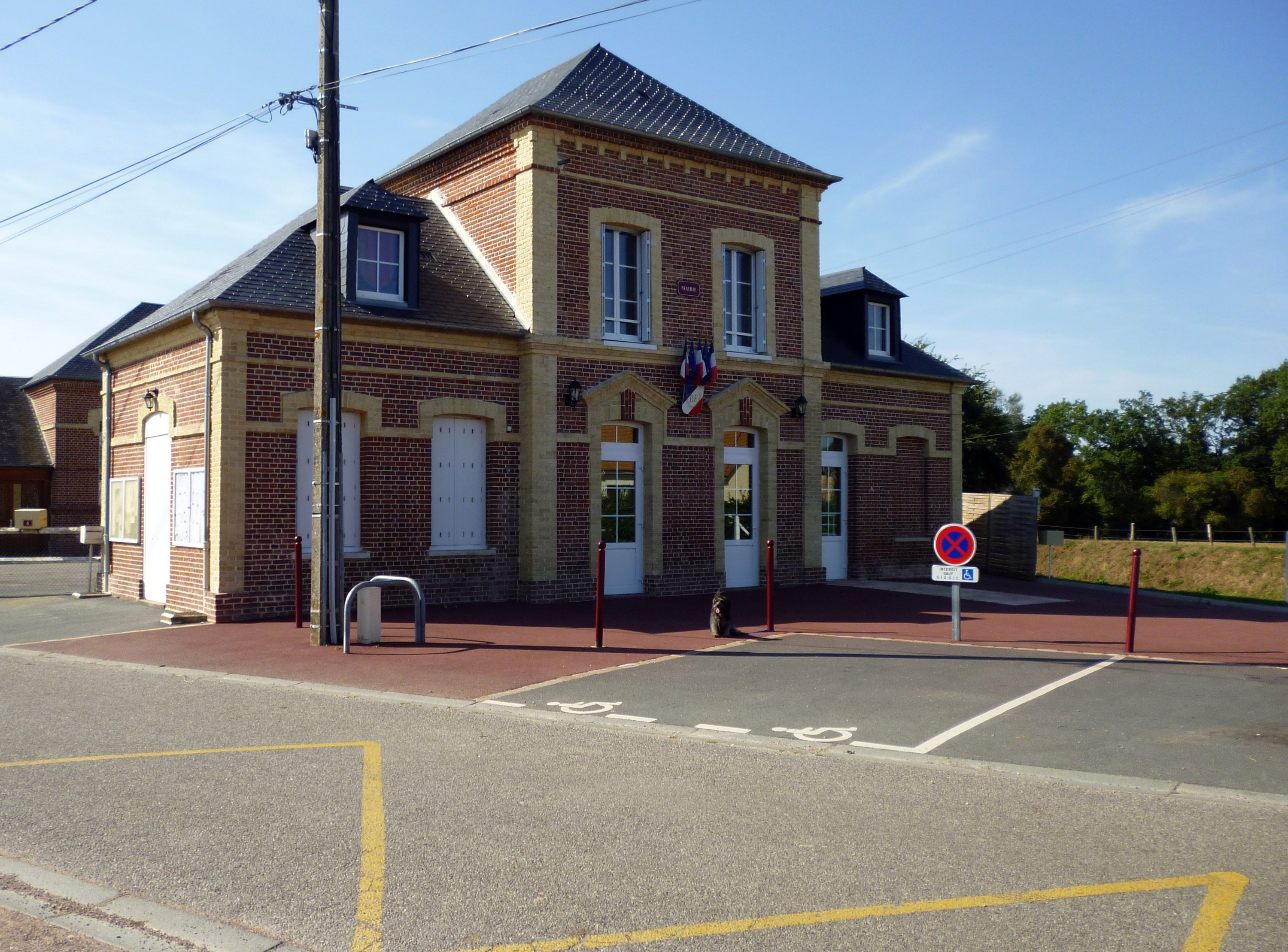 Town hall of Le Theil-Nolent (Eure, Haute-normandie, France).